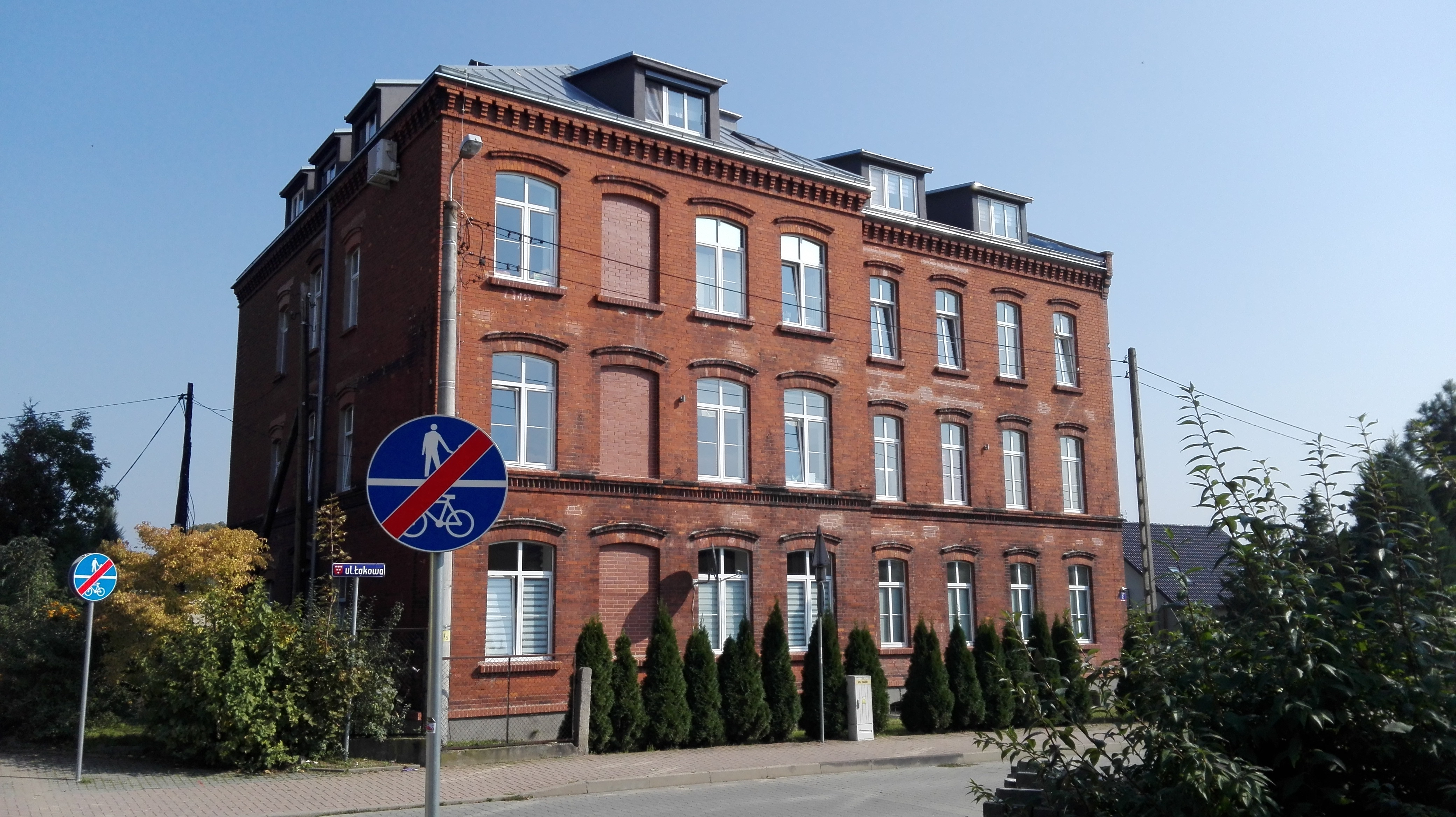 2 Łąkowa Street in Nysa